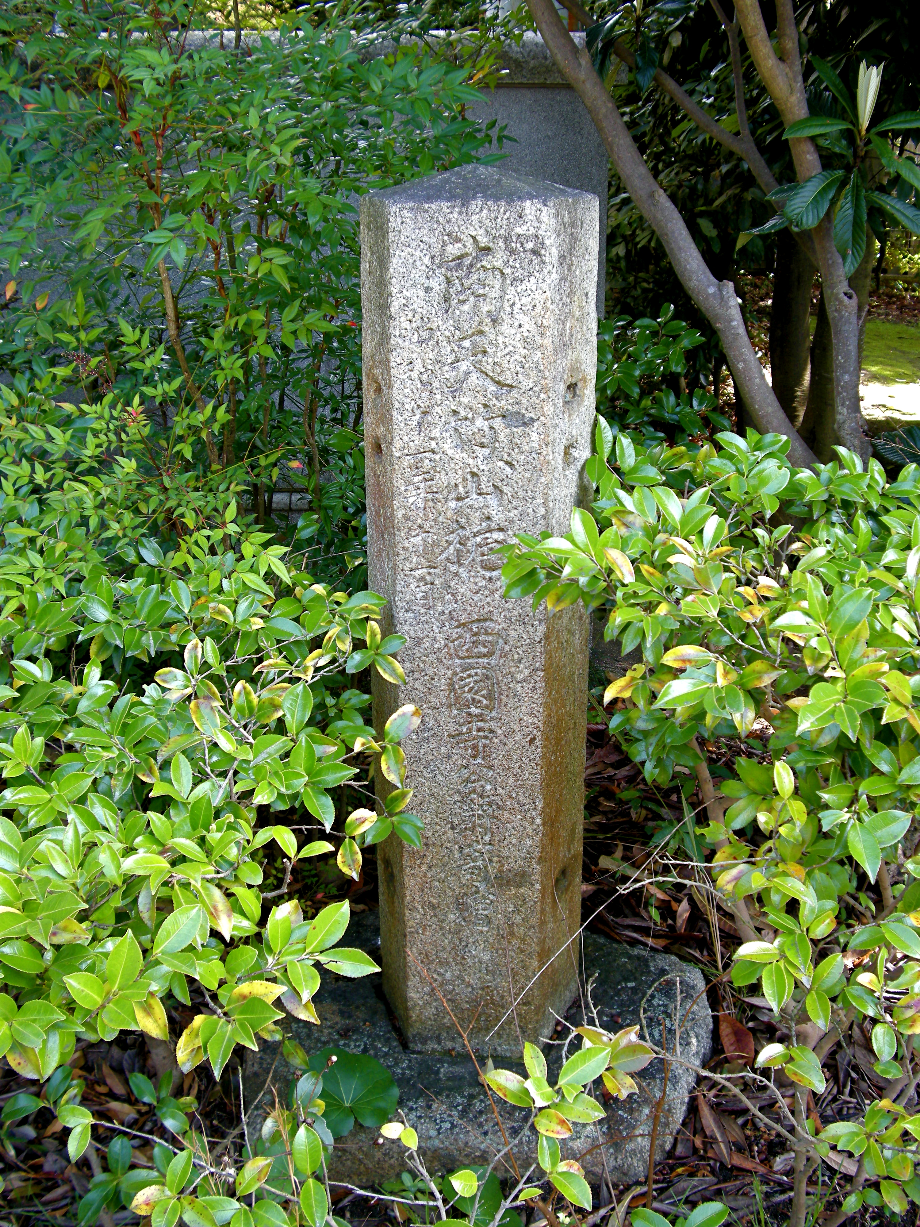 Stone Memorial (Kinugasa Campus, Ritsumeikan University, Kyoto, Japan)